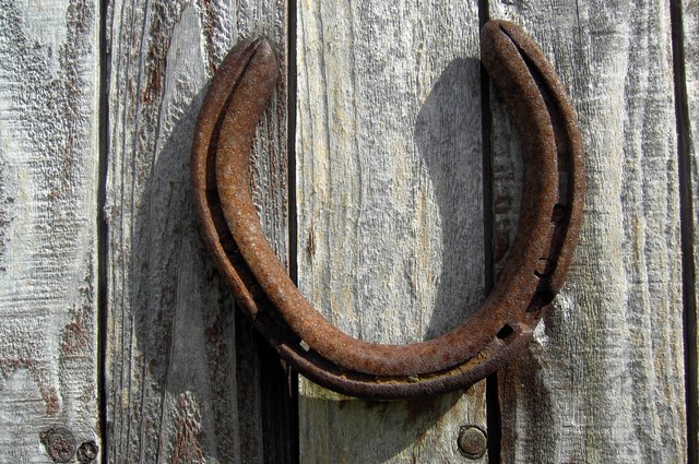 Lucky Horseshoe A lucky horseshoe nailed to a hut door.